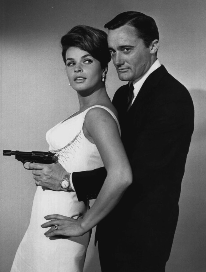 Photo of Senta Berger and Robert Vaughn from the television program The Man From U.N.C.L.E.. The episode is "The Double Affair".